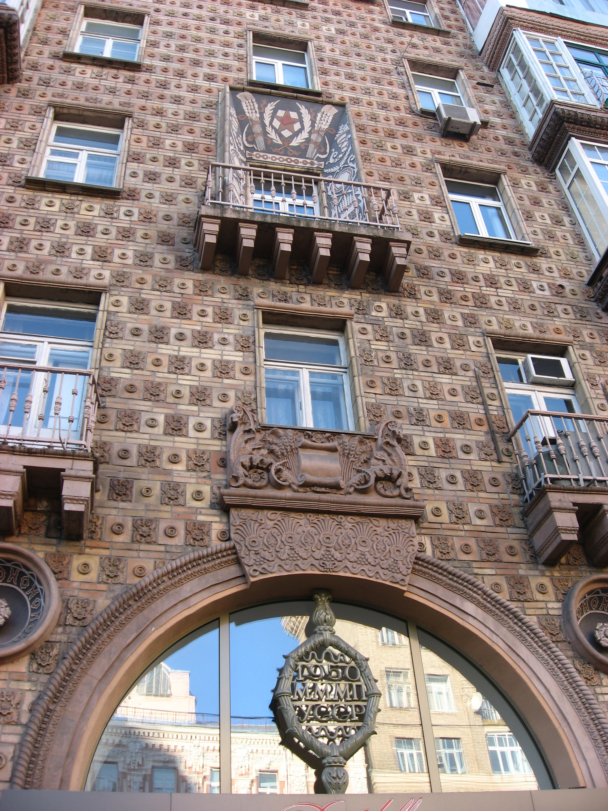 A stalinist building in Kiev, 1950 (Chervonoarmiyska street)